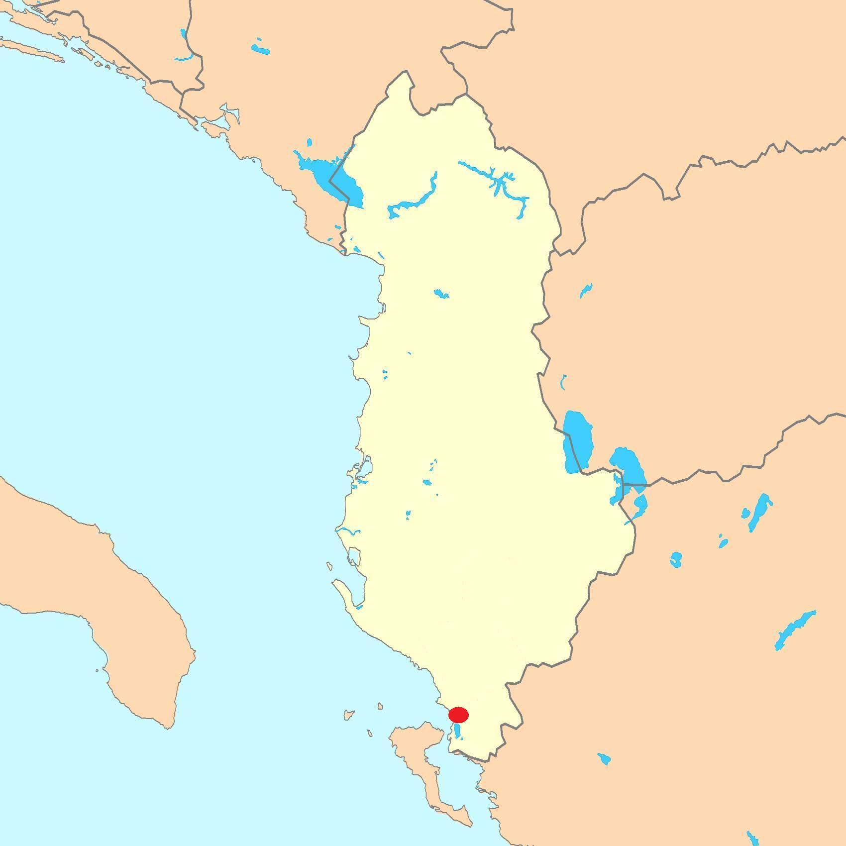 map Sarandë, Albania